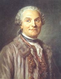 Maurice Quentin de la Tour (French, 1704–1788). Portrait of Charles Marie de la Condamine, 1753. Pastel on paper.